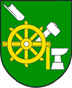 Coat of arms of Snina, Slovakia